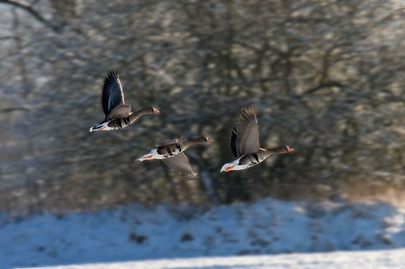 A group of Greater White-fronted Goose